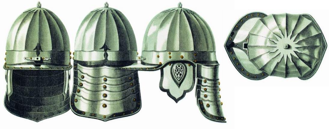 Capeline / Chichak